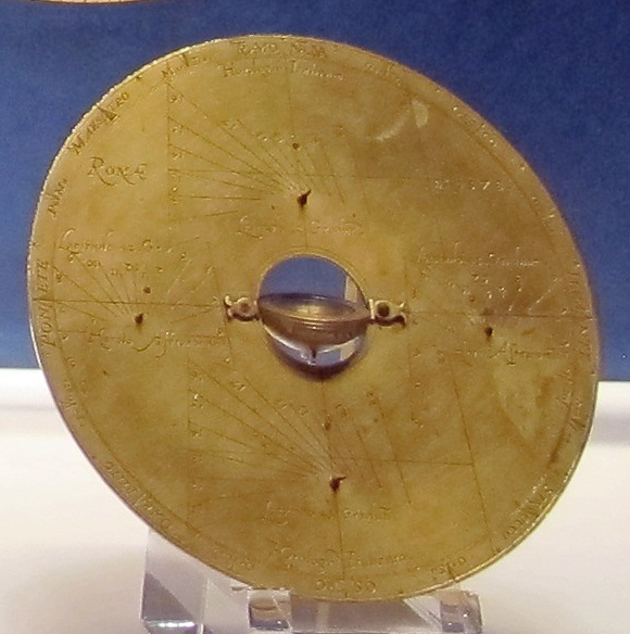 Sundial.